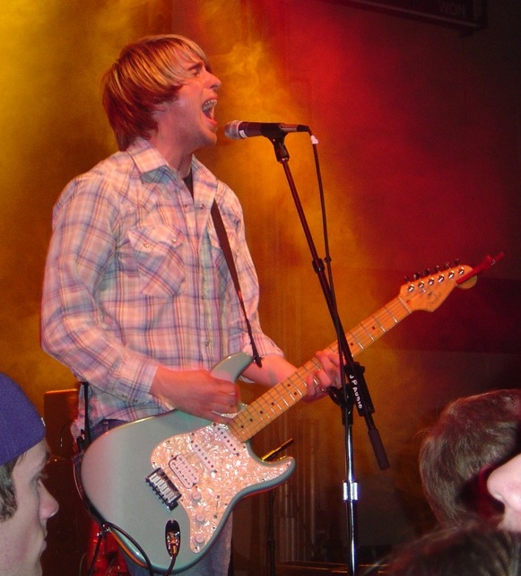 Matt Hammit, lead singer of Christian rock band Sanctus Real, performing a concert at Taylor University, USA in April 2004.